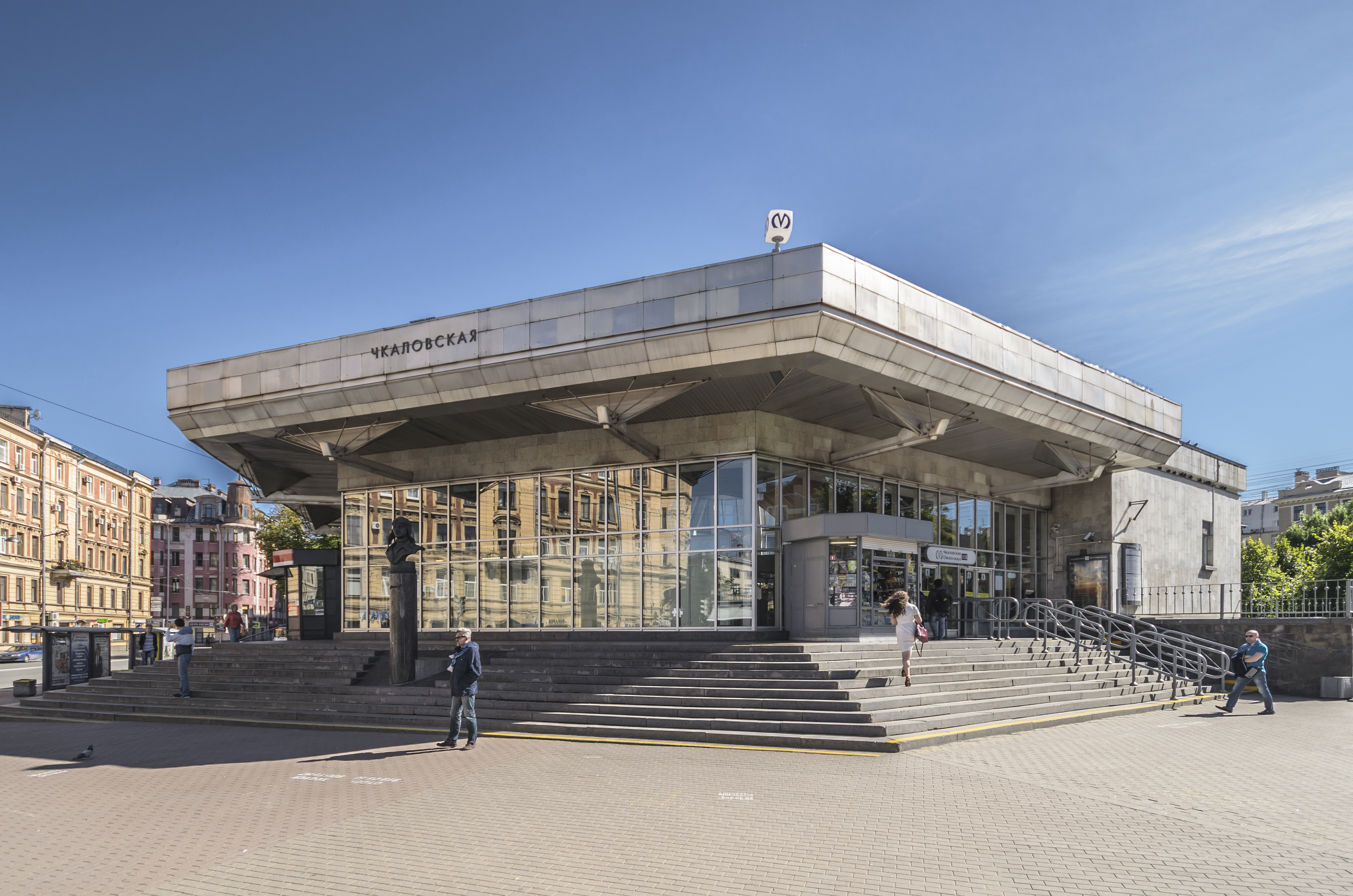 Chkalovskaya station of Saint Petersburg Subway